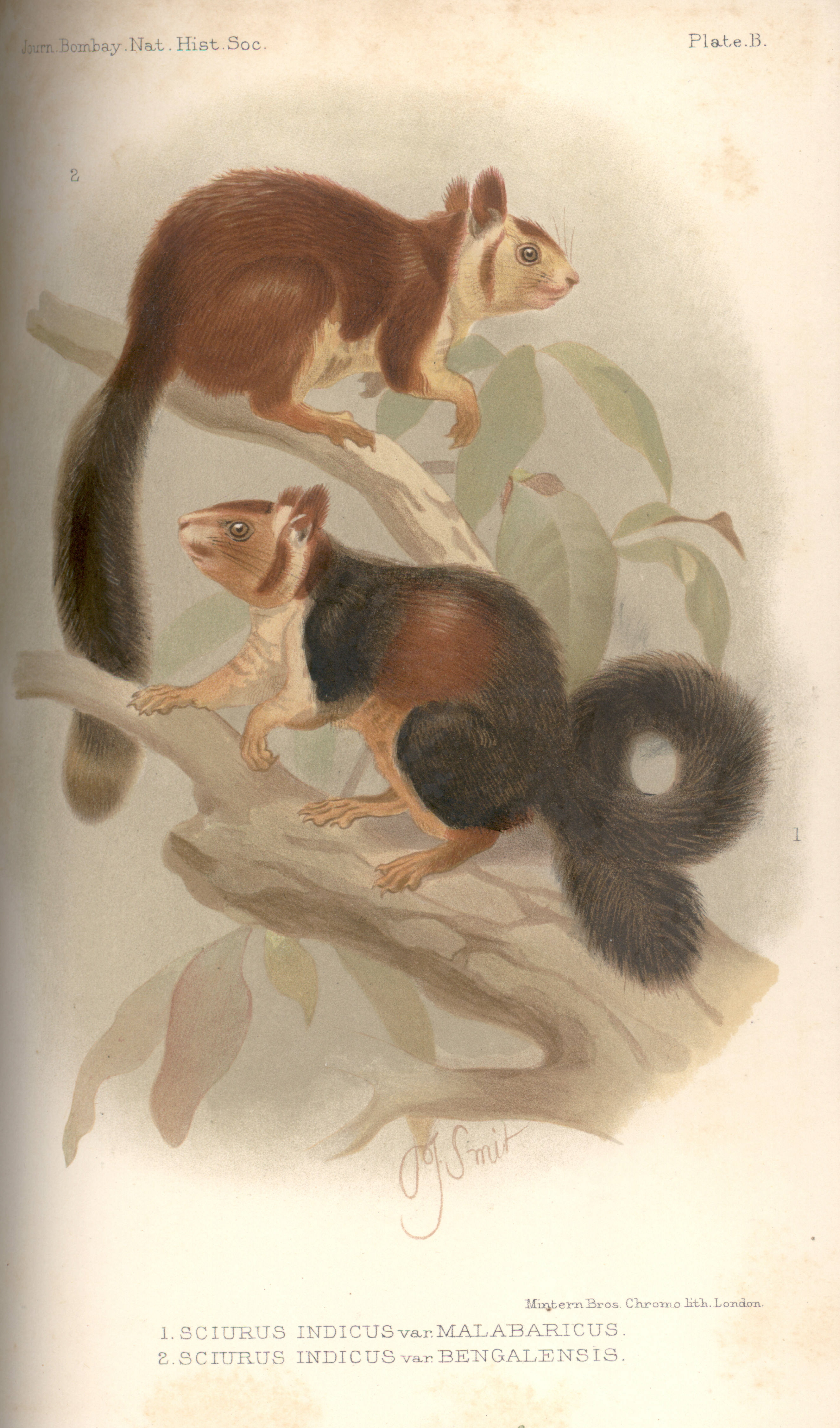 Color plate of Indian giant squirrel subspecies Sciurus indicus bengalensis (top) and Sciurus indicus malabaricus (bottom) from the article, "The large Indian squirrel (Sciurus indicus erx.) and its local races or sub-species," by W. T. Blanford F. R. S. Journal of the Bombay Natural History Society, 1898, 11:298-305. Scanned from original copy by Fowler&fowler«Talk» 15:49, 27 October 2007 (UTC)